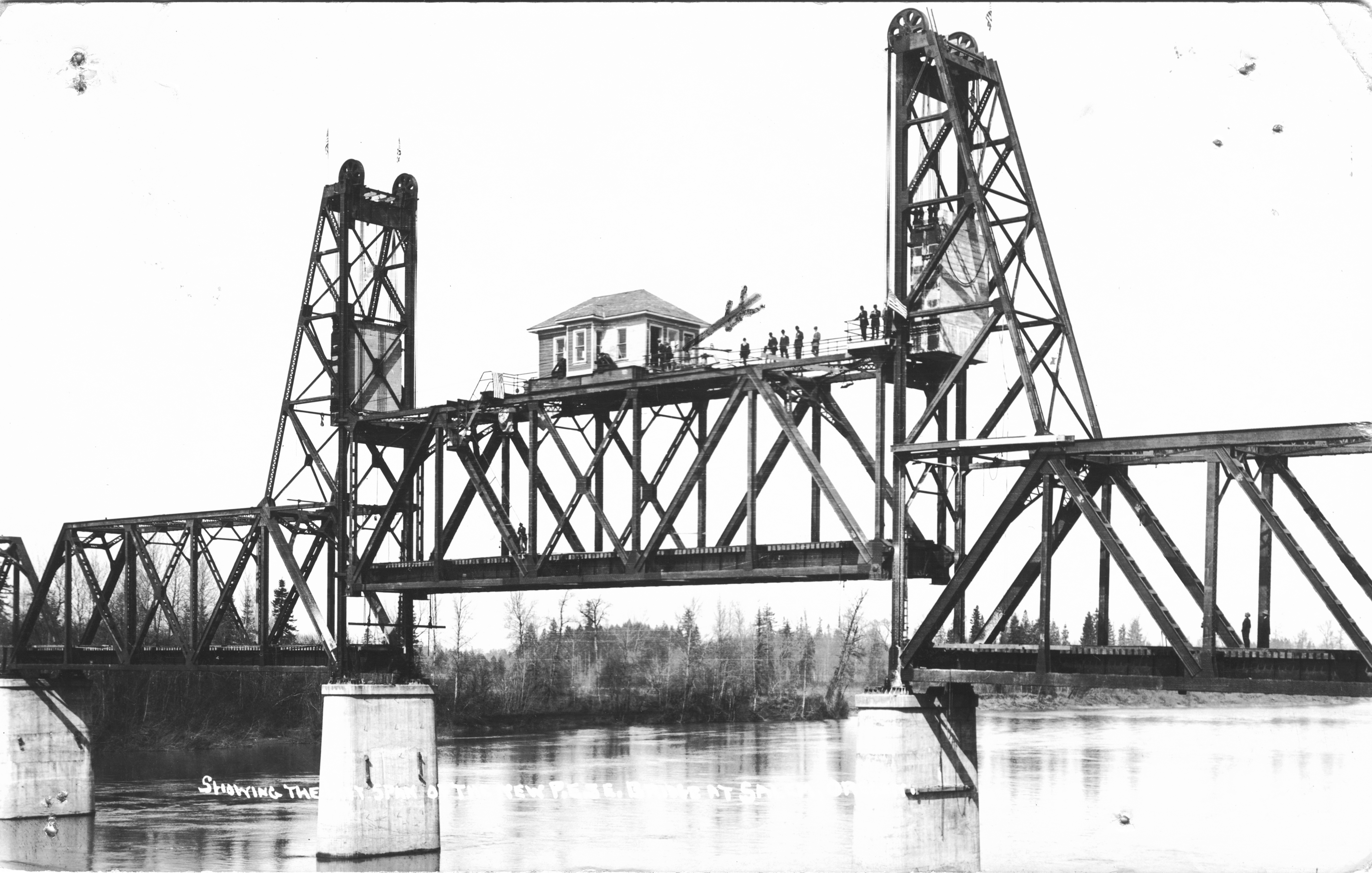 Original Collection: Gerald W. Williams Collection You can find this image by searching for the item number by clicking here. Want more? You can find more digital resources online. We're happy for you to share this digital image within the spirit of The Commons; however, certain restrictions on high quality reproductions of the original physical version may apply. To read more about what “no known restrictions” means, please visit the Special Collections & Archives website, or contact staff at the OSU Special Collections & Archives Research Center for details.